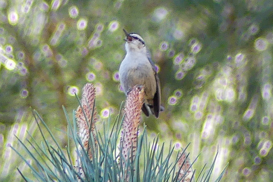 Corsican Nuthatch